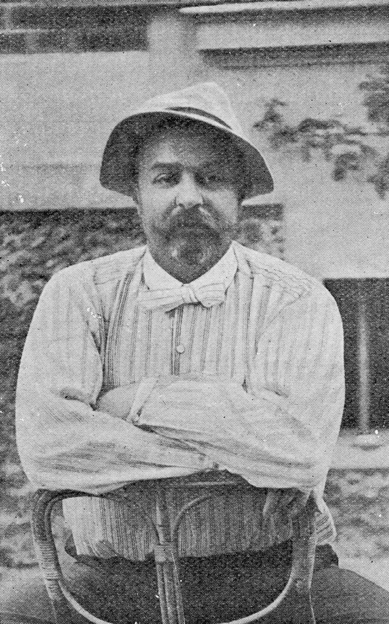 Book by Pierre de Coubertin